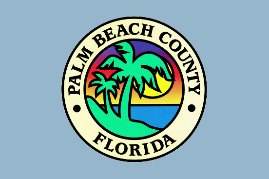 The official flag of Palm Beach County, Florida.